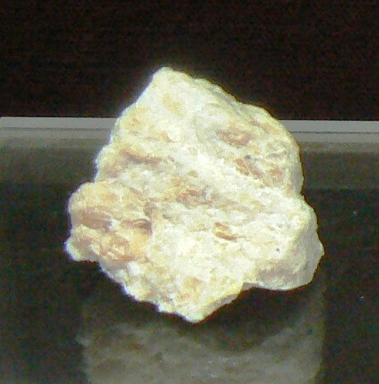 Piece of the mineral reedmergnerite. Discovered in Dara-i-Pioz, Tajikistan. Exhibit of the "Earth and Man" Museum in Sofia, Bulgaria.